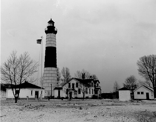 Image of the Big Sable Point Lighthouse